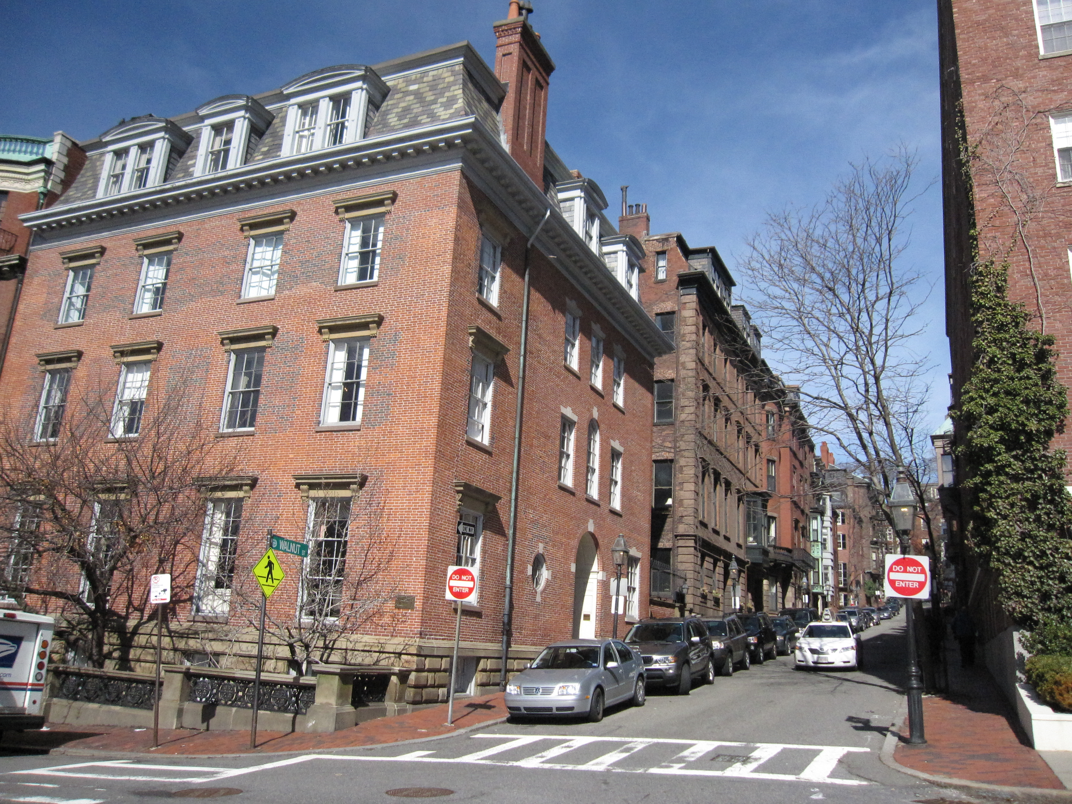 Boston, Massachusetts, March 2010